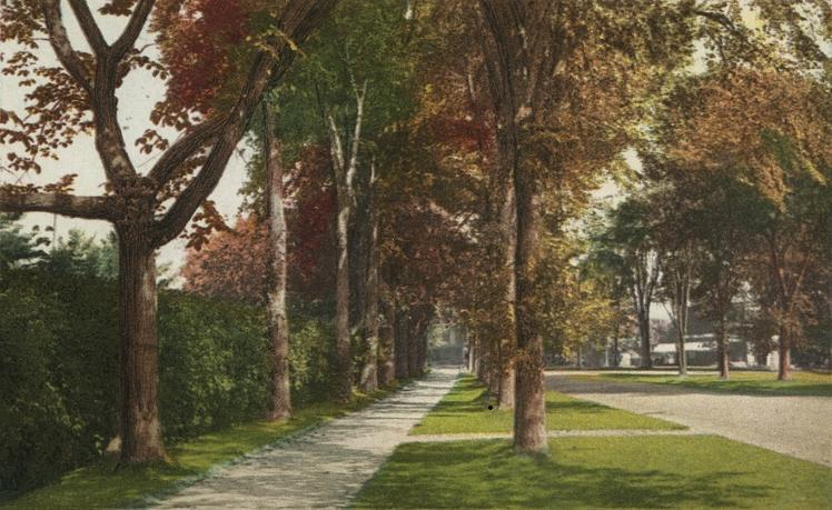 Kemble Street, Lenox, MA; from a c. 1908 postcard printed by the Detroit Publishing Company.